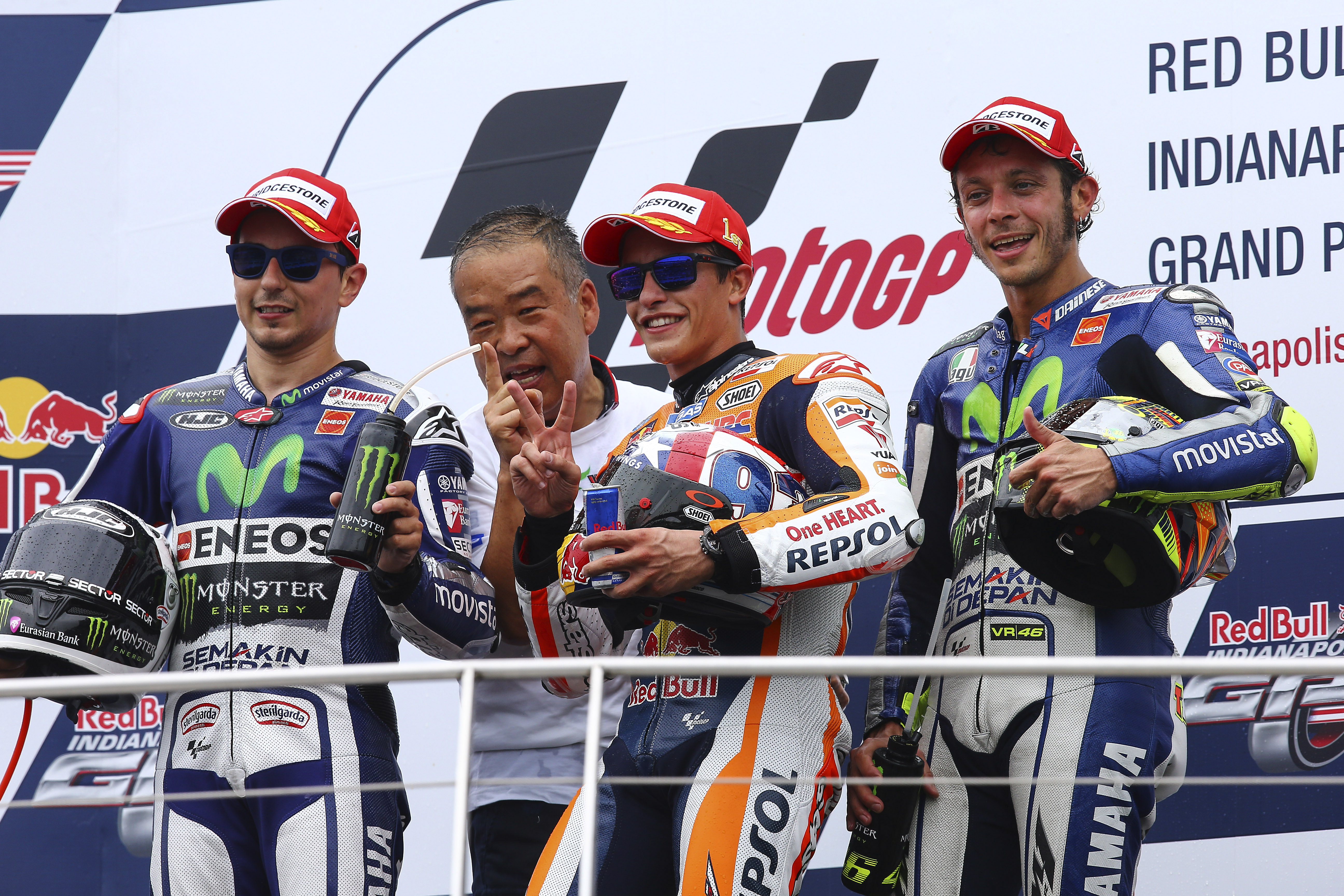 Jorge Lorenzo, Marc Márquez and Valentino Rossi, celebrating on the podium after finishing in second, first and third place at the 2015 Indianapolis Grand Prix.